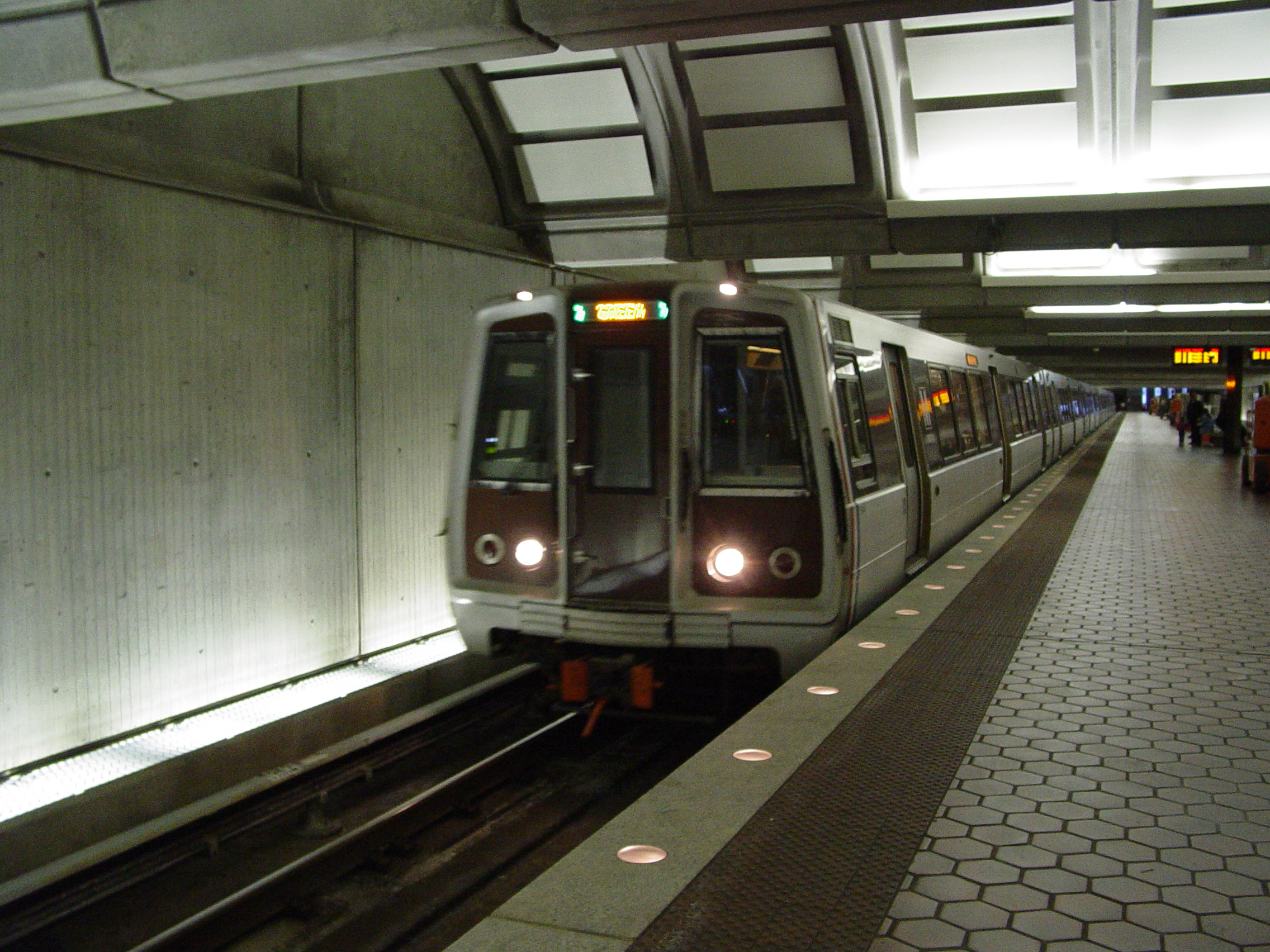 A WMATA 5000-Series train arrives at Anacostia, a station on the Green Line of the Washington Metro.